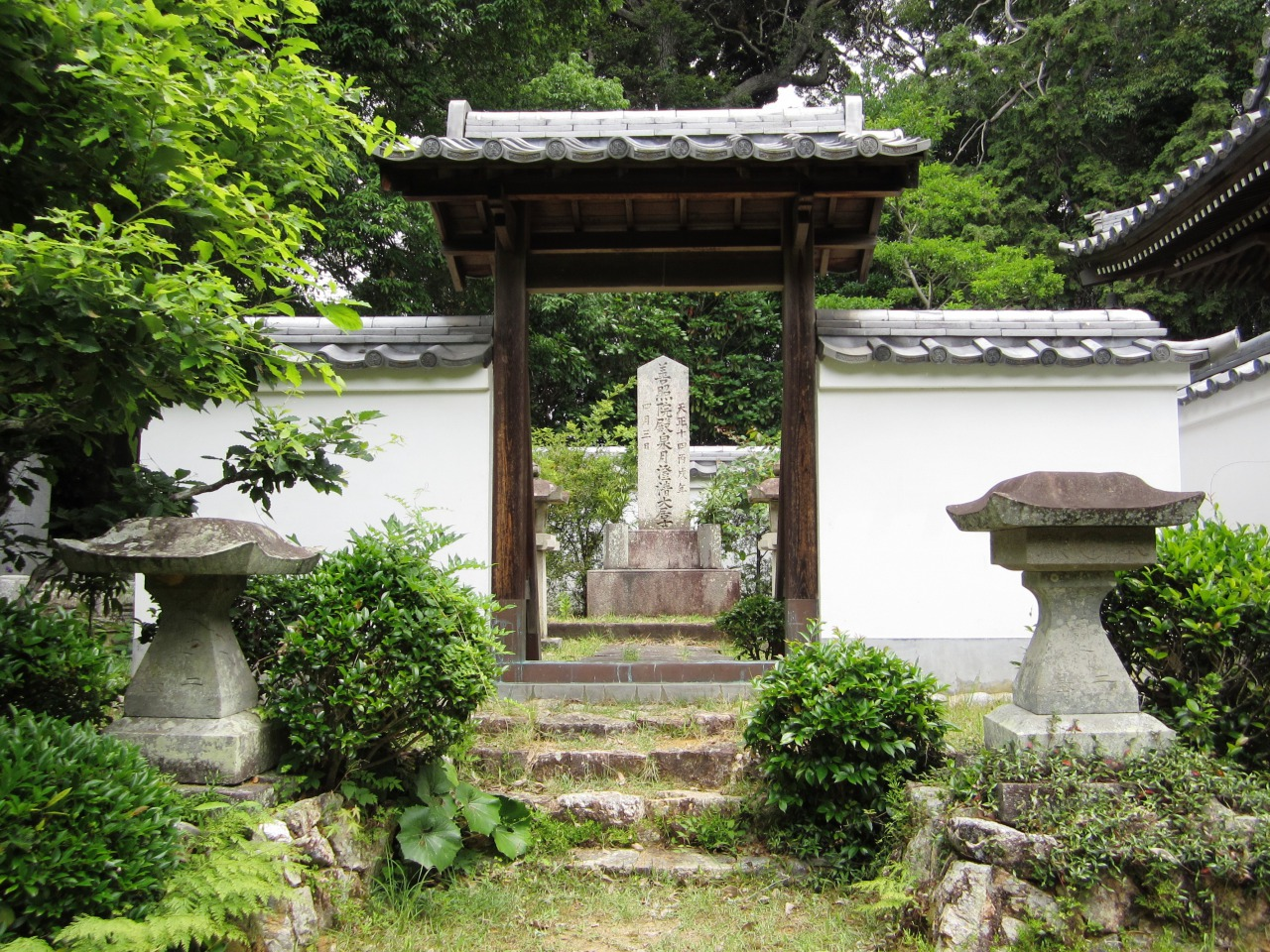 The grave of Matsudaira Yasutoshi at Seirai-in in Hamamatsu, Shizuoka.